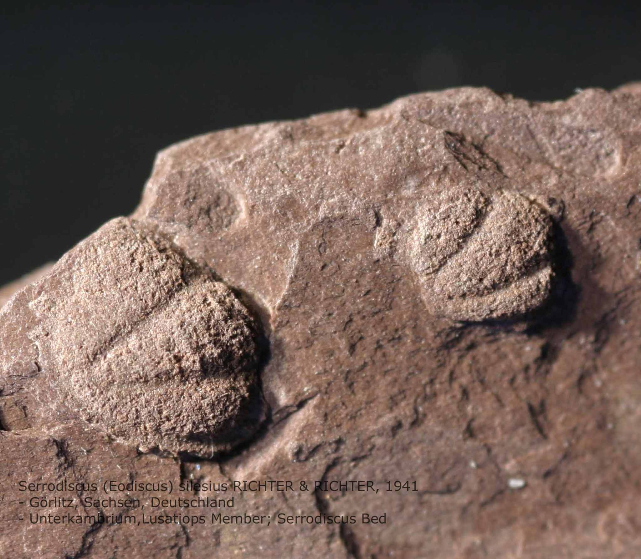 Serrodiscus silesius Richter and Richter 1941, a lower Cambrian eodiscid Trilobite from Goerlitz, Germany.